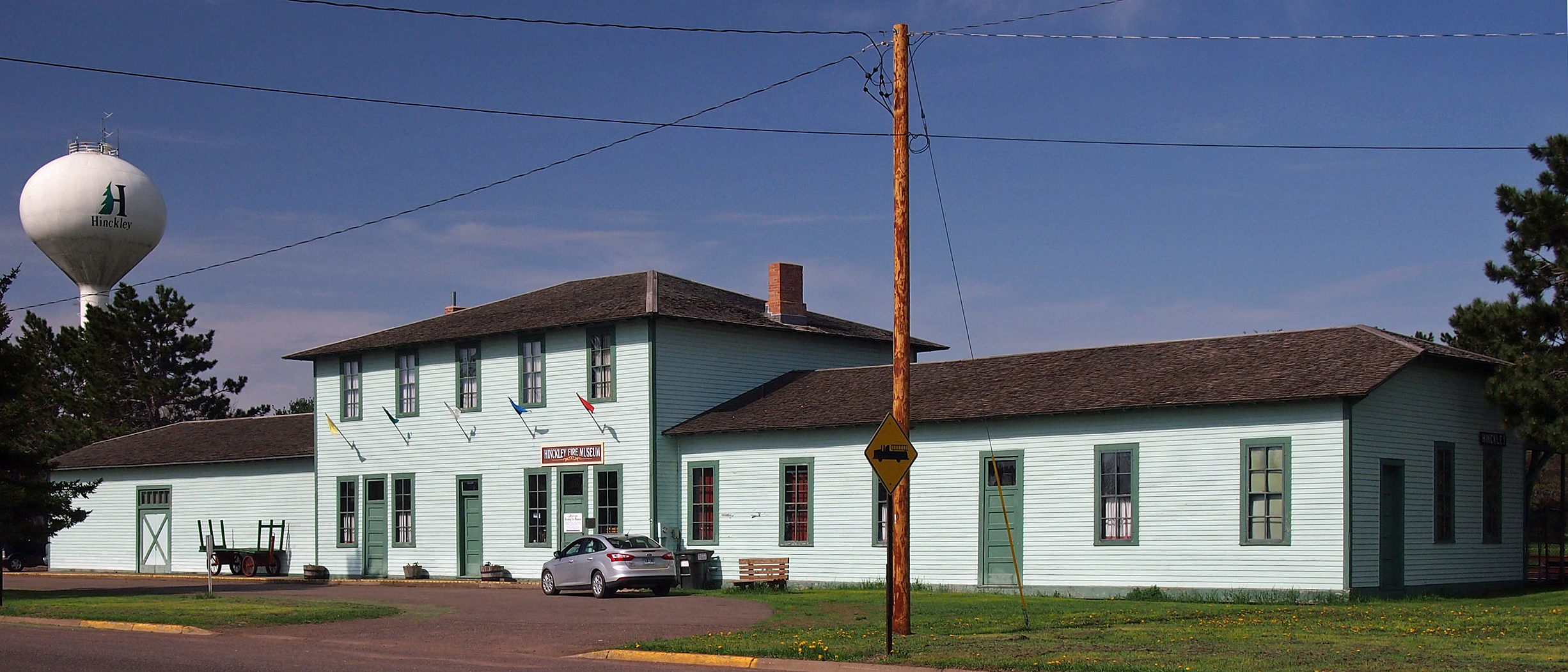 Hinckley Fire Museum & water tower, 106 Old Highway 61, Hinckley, Minnesota, USA. Viewed from the northeast.